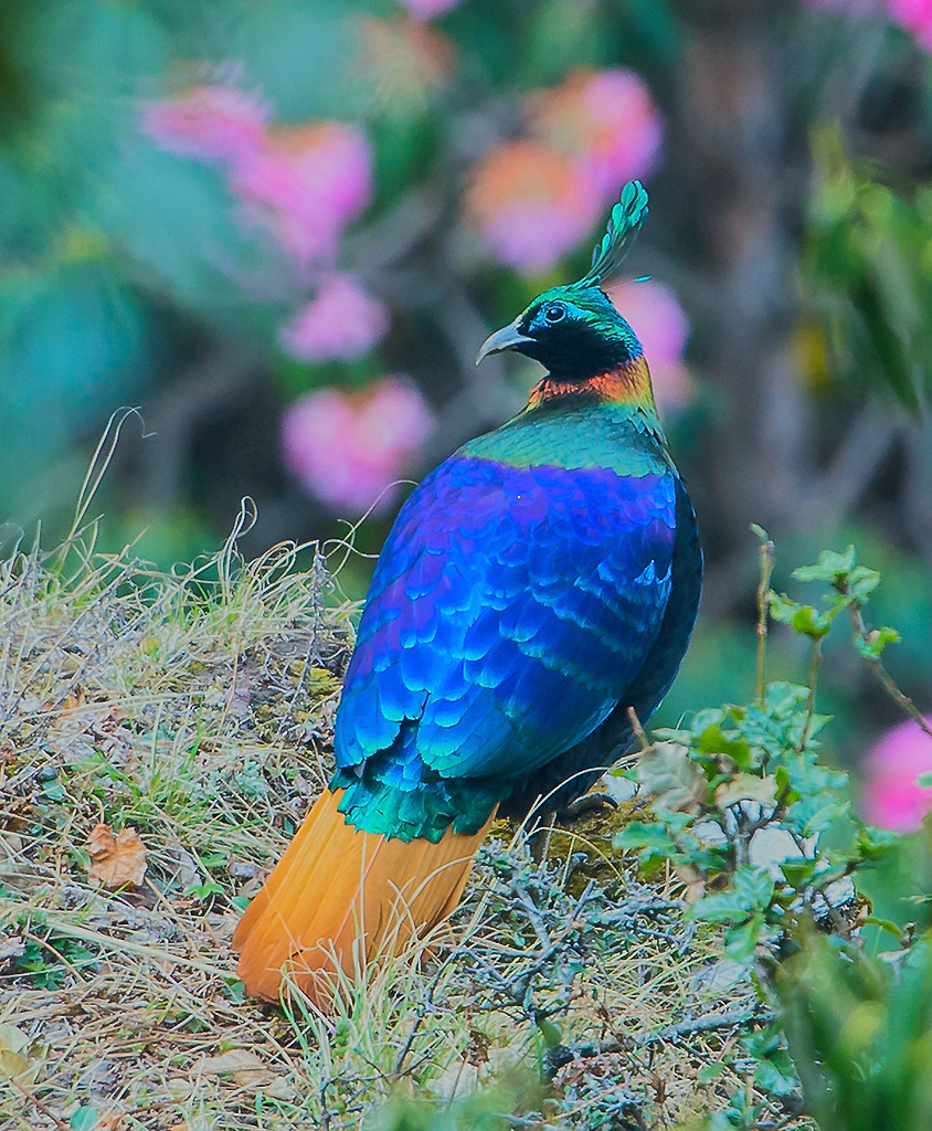 Lophophorus impejanus or Monal is arguably, the most beautiful bird in India. They live in the Alpine Shrublands of the Himalayas. In the Winters they descend ti lower altitudes and can be easily spotted in areas like Chopta, in the Kedarnath Muskdeer Sanctuary. March 2015